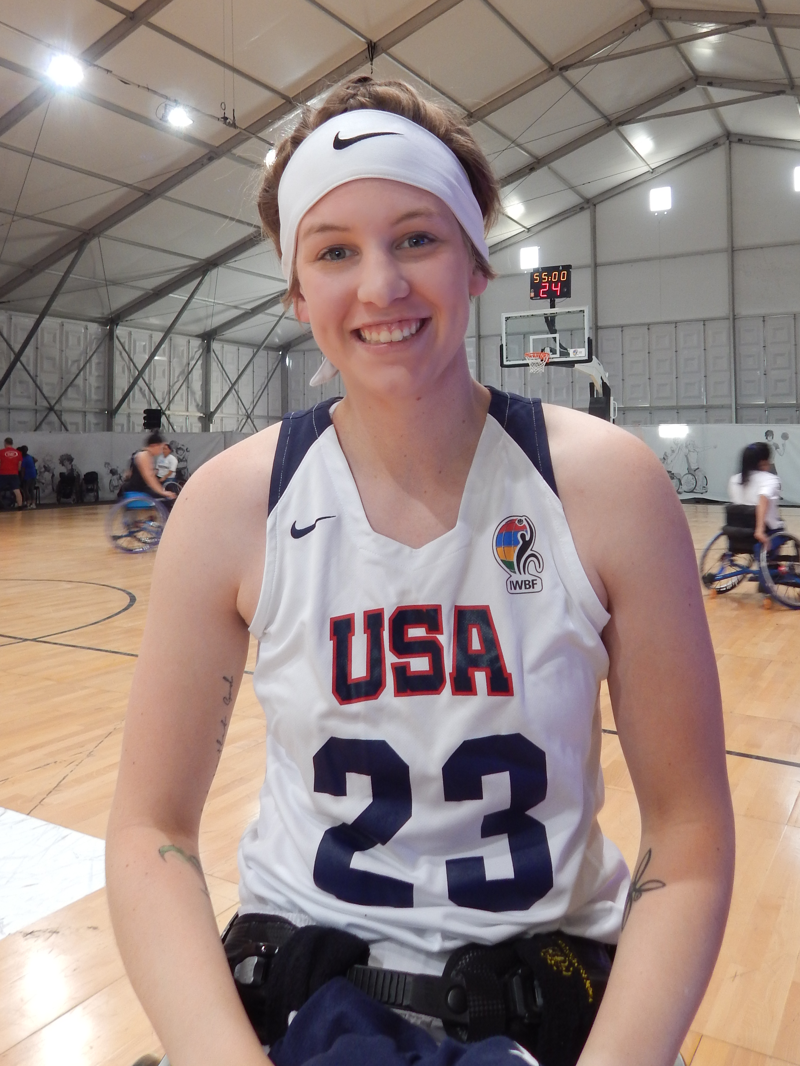 Abby Dunkin - USA No. 23